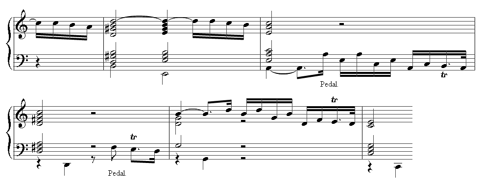 Excerpt from Toccata mit dem Pedal aus C by Johann Krieger (1651–1735). Made using Sibelius 4 by Jashiin. The music quoted is in the public domain, and the image is hereby released into the public domain by Jashiin.